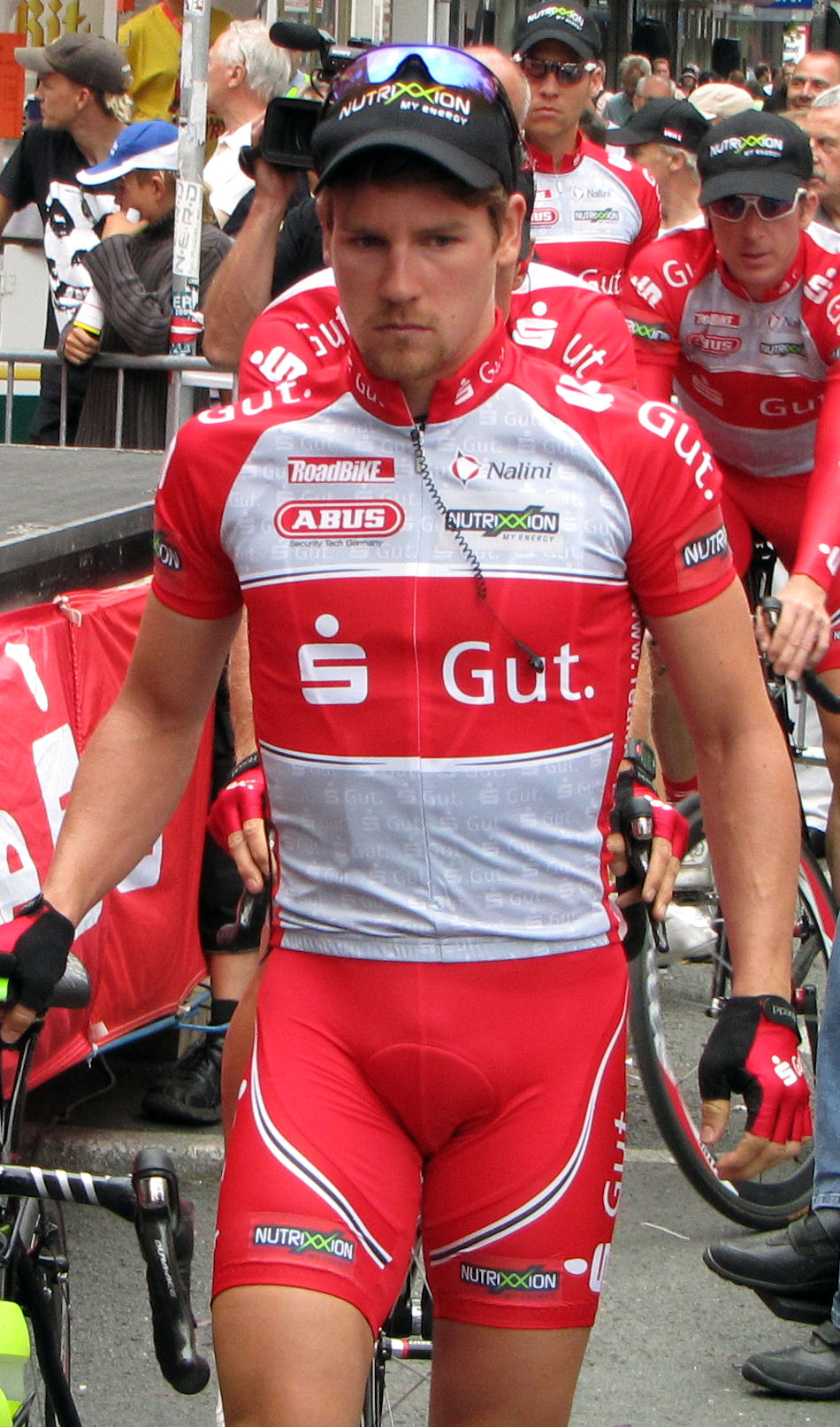 Marcel Fischer